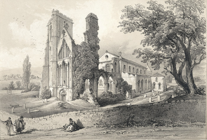 A view of the ruins of Llandaf Cathedral with women wearing Welsh costumes on the roadway.